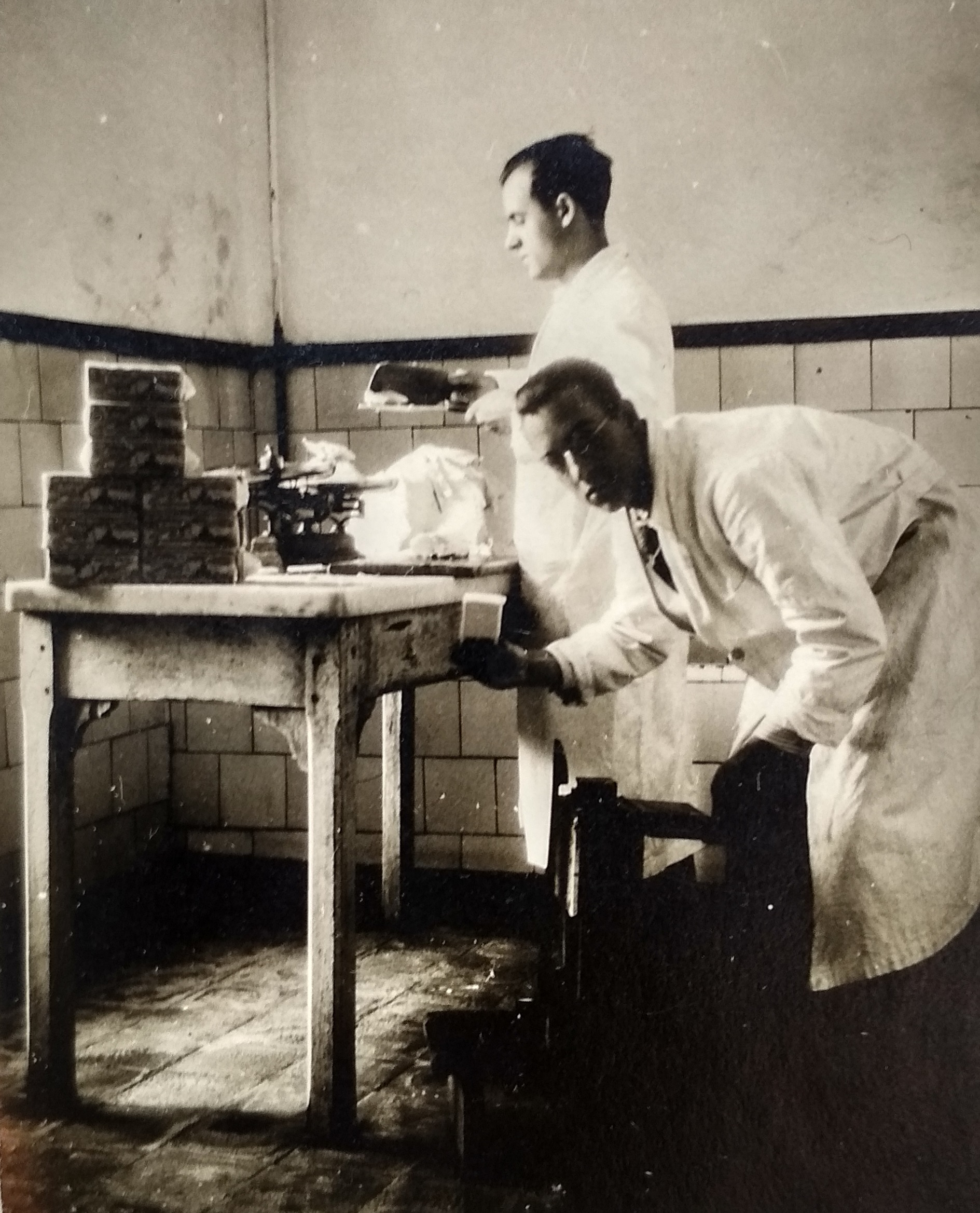 laboratorio cerealicultura Juan Matallana